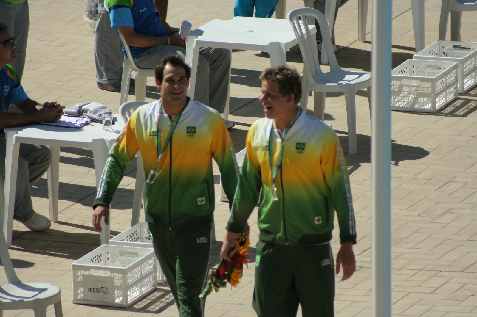 Nicholas Santos and César Cielo Filho at the 2007 Pan American games